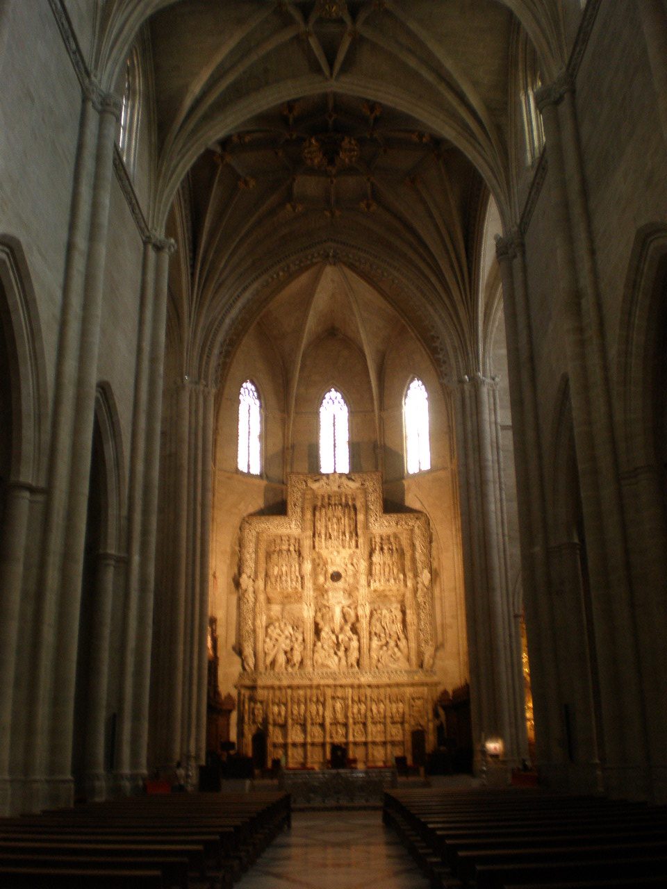 Huesca cathedral, inside